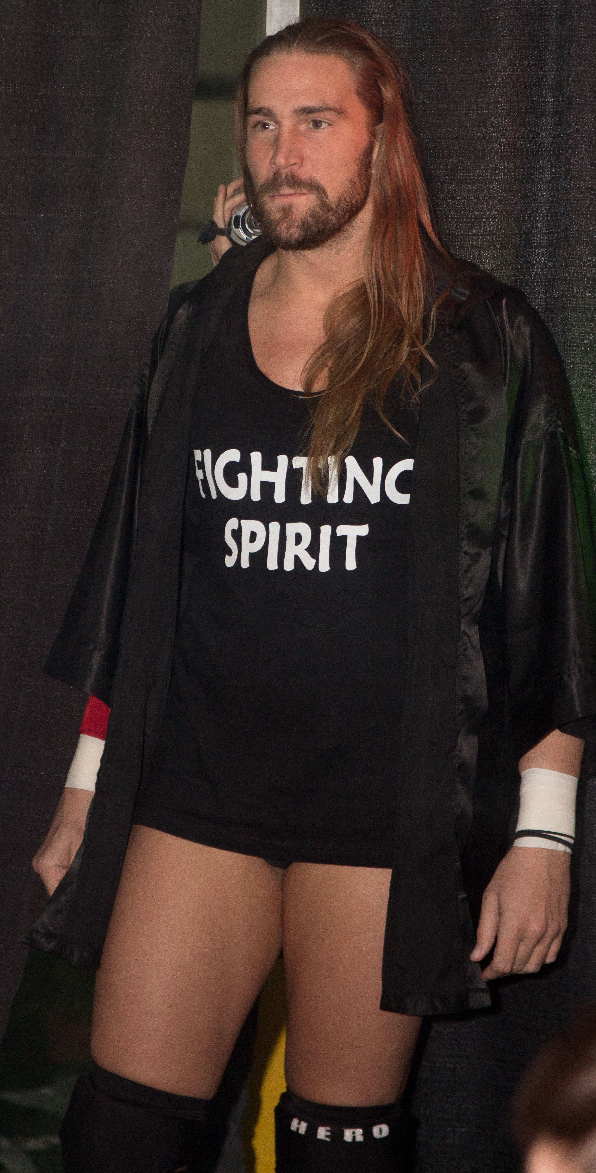 Chris Hero making his way to the ring at Smash Wrestling's Tapped Out in Mississauaga, ON